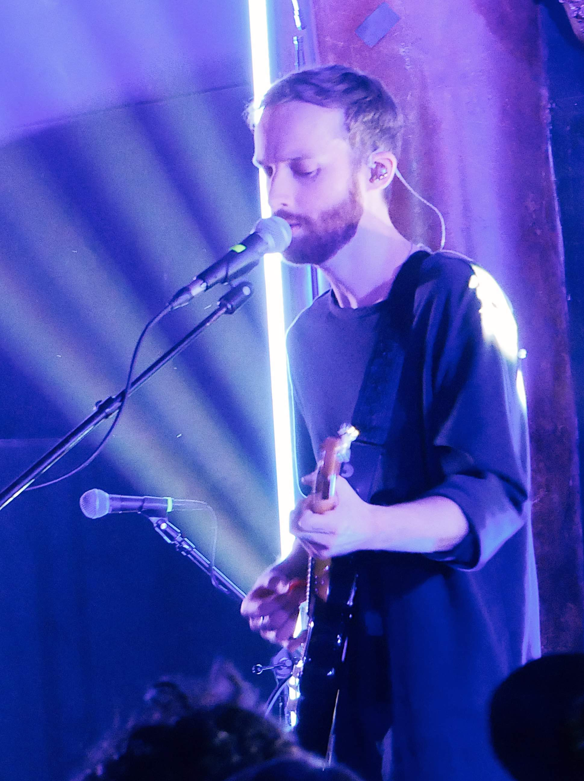 Photograph by Josh Jaffe (@josh_jaffe)